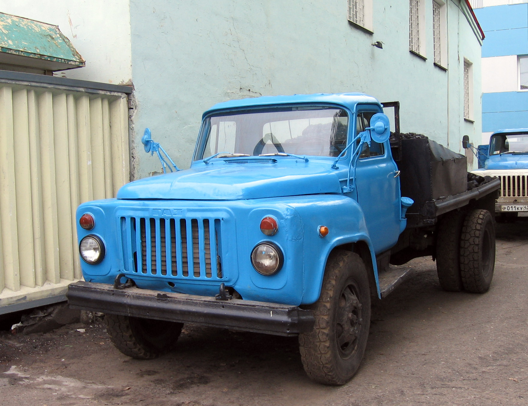 gaz 52